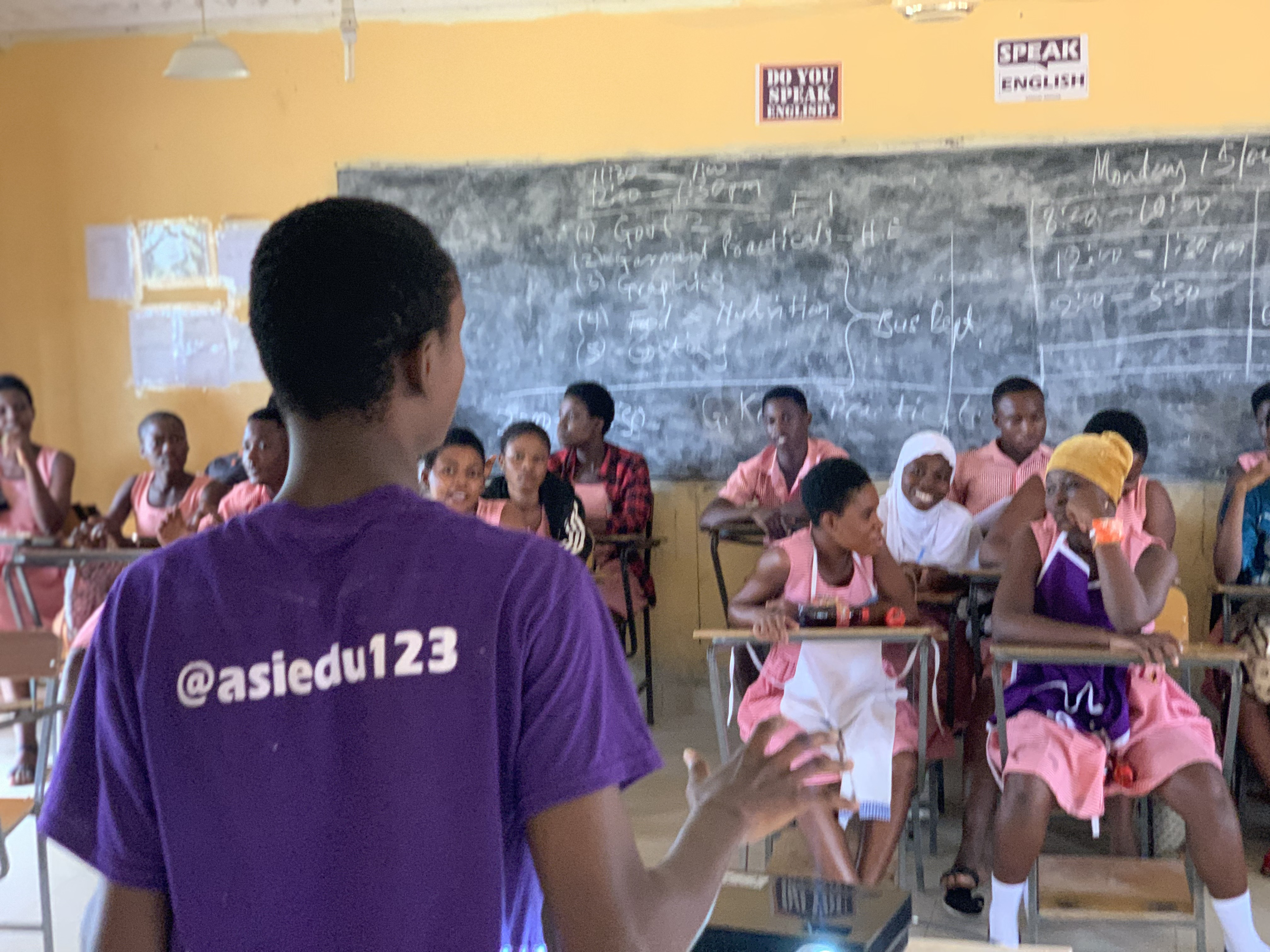 St.Thomas Senior High School training on wikipedia and its sister project